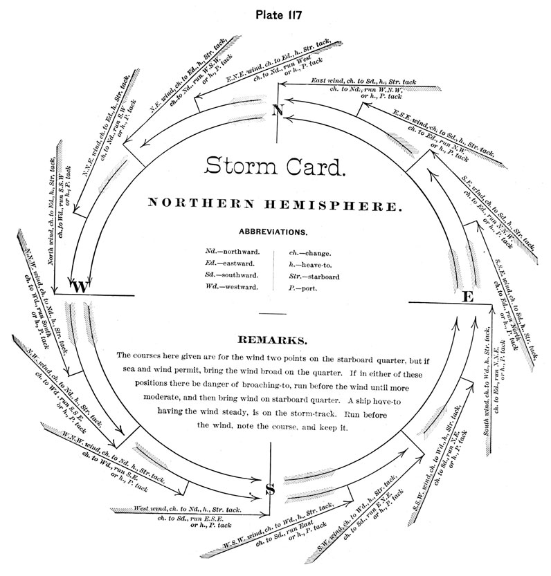 A storm card from a sailing text